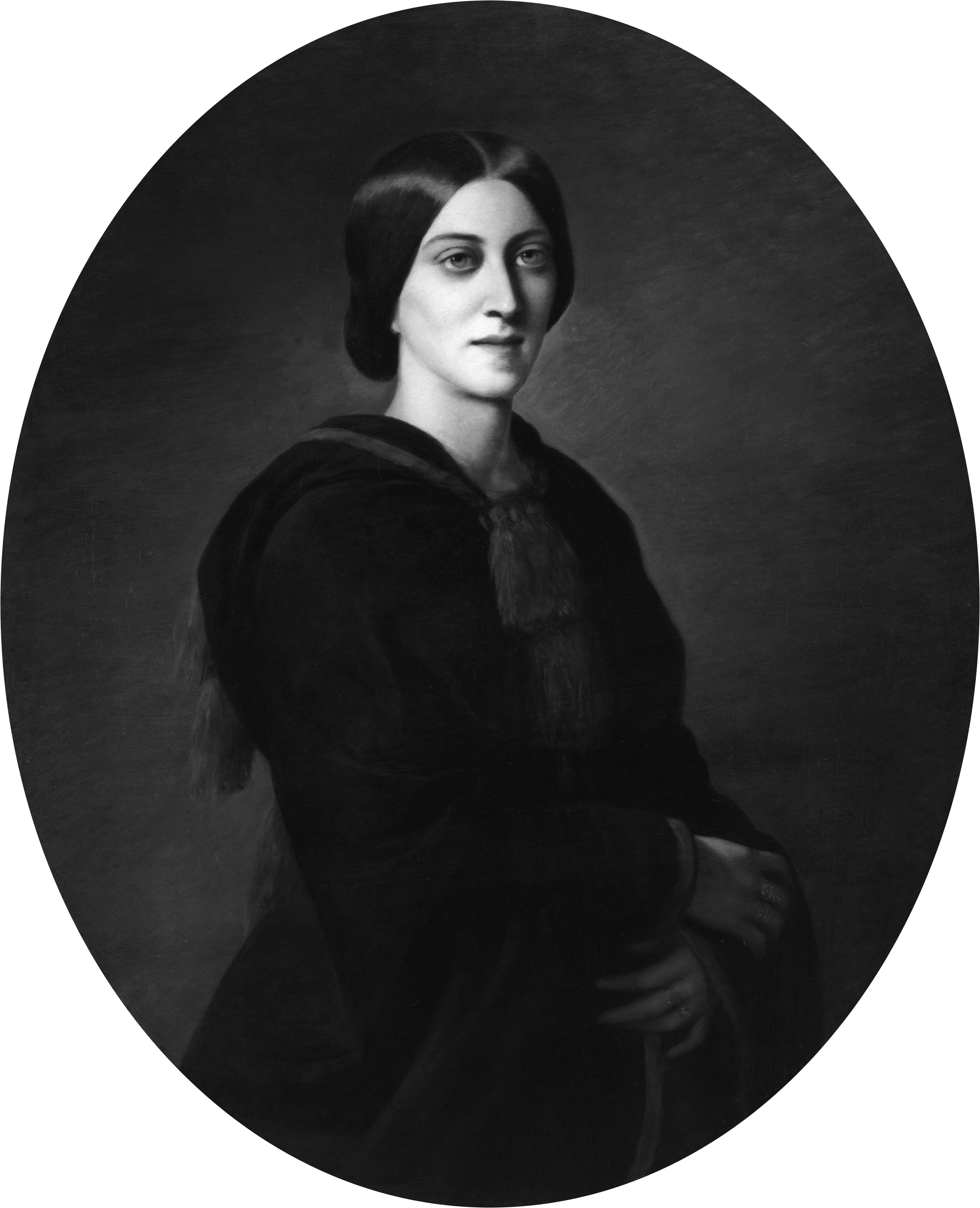 Adelaide Anne Procter (30 October 1825 – 2 February 1864) was an English poet and philanthropist. She worked on behalf of a number of causes, most prominently on behalf of unemployed women and the homeless, and was actively involved with feminist groups and journals.